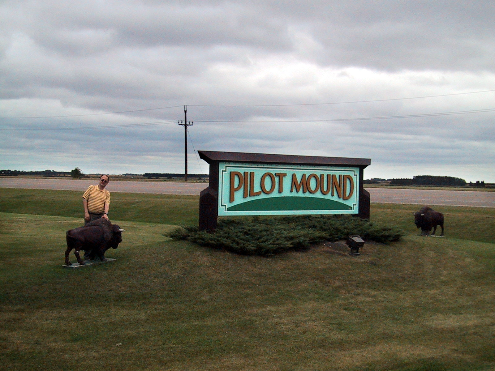 Pilot Mound Manitoba road sign